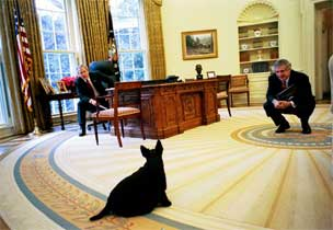 Barney, the George W. Bush scottish terrier in the Oval Office.